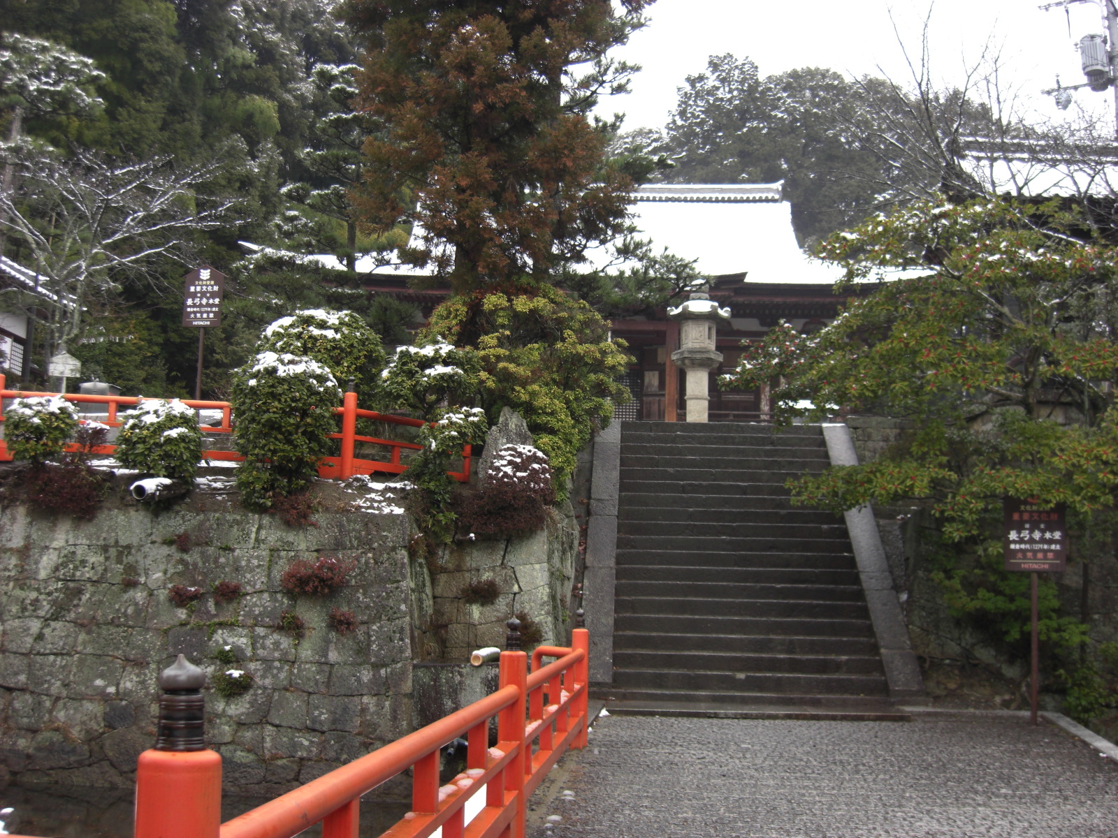 temple premises of Chokyu-ji temple